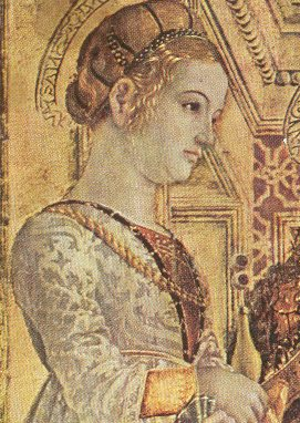 Ippolita Maria Sforza (1446-1484), daughter of Francesco I Sforza and Bianca Maria Visconti, wife of king Alfonso II d'Aragon of Naples, mother of Isabella of Naples. Transferred from File:Ippolita Maria Sforza.jpg, uploaded by User:Petri Krohn